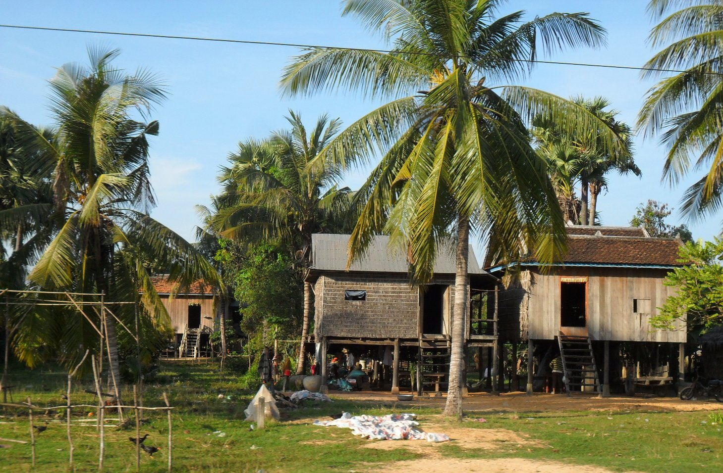 Houses in countryside of Cambodia, KAmpong Thom Province